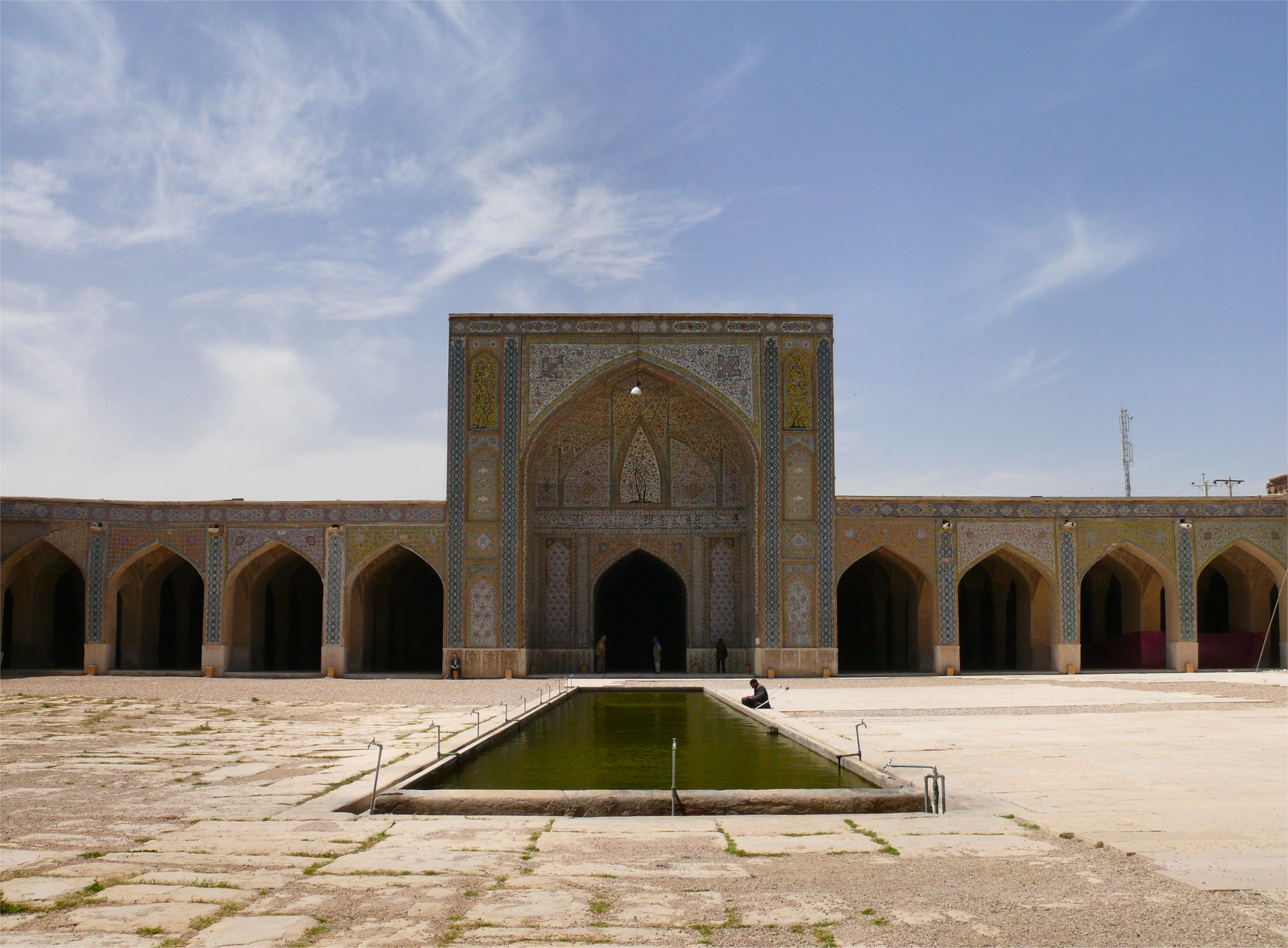 View of Iwan & court at the Vakil mosque at Shiraz, Fars province, Iran, April 2009